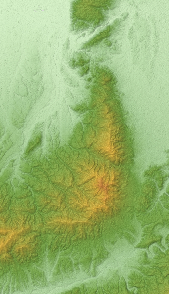 Kongo Mountains in the border between Osaka and Nara Prefectures, Honshu, Japan.